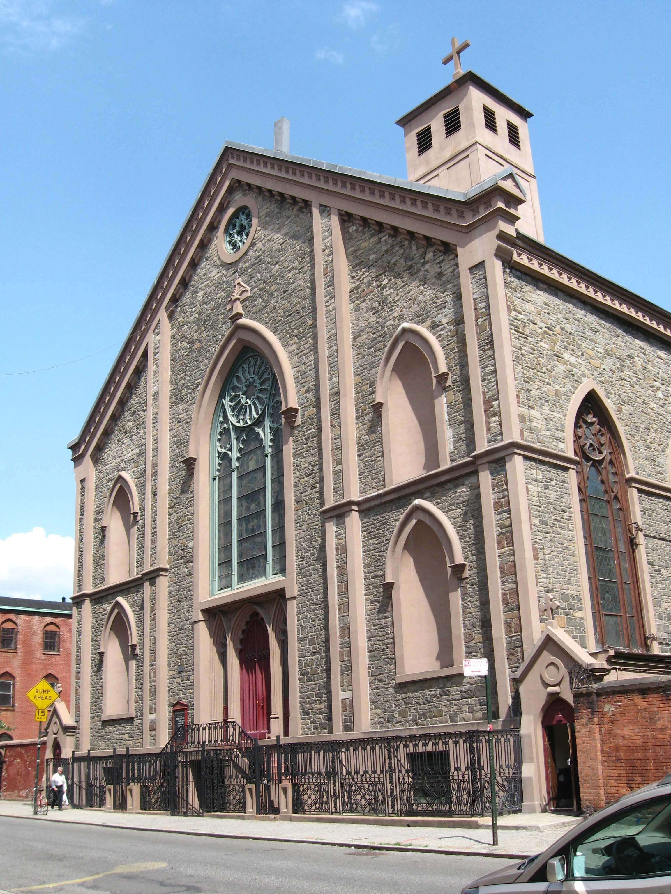 Looking northeast at the front (Mulberry Street) side of St. Patrick's Old Cathedral, New York on a sunny midday